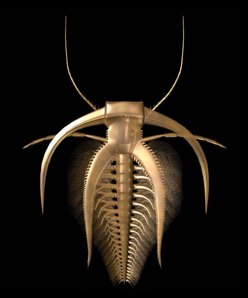 Marrellomorph Marrella splendens Walcott, 1912. Dorsal view on a rendered 3D model based on observations of Haug et alii.